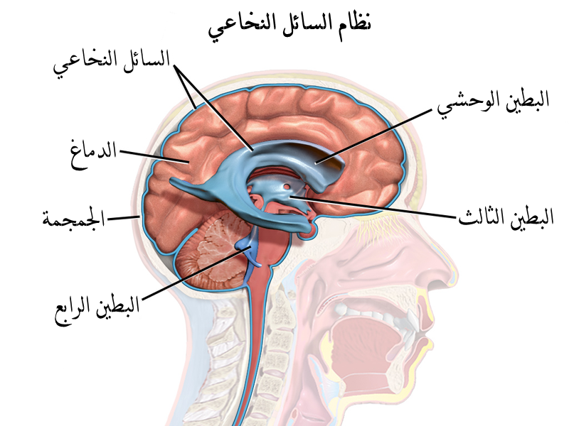 Cerebrospinal System. See a full animation of this medical topic.